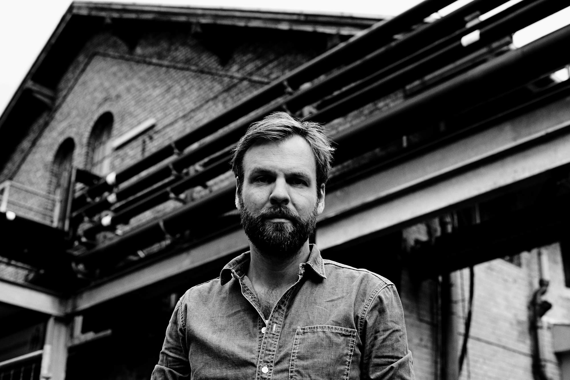 Swedish musician and composer Henrik Lindstrand